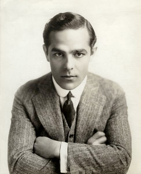 Publicity portrait of silent film star Antonio Moreno, Hartsook Studio, 1916.